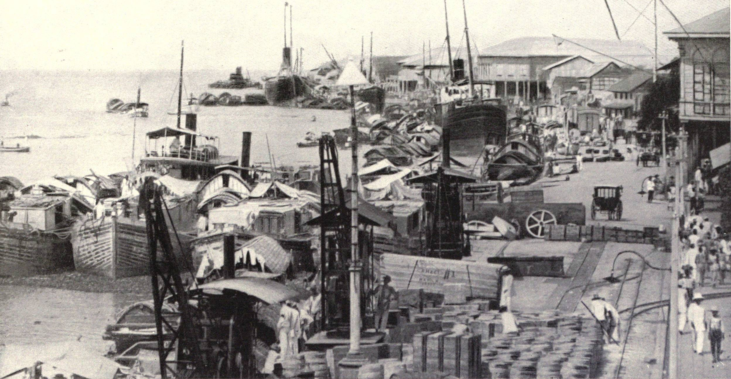 The commerce of Manila - Scene along the waterfront From Harper's Pictorial History of the War with Spain, Vol. II, published by Harper and Brothers in 1899.